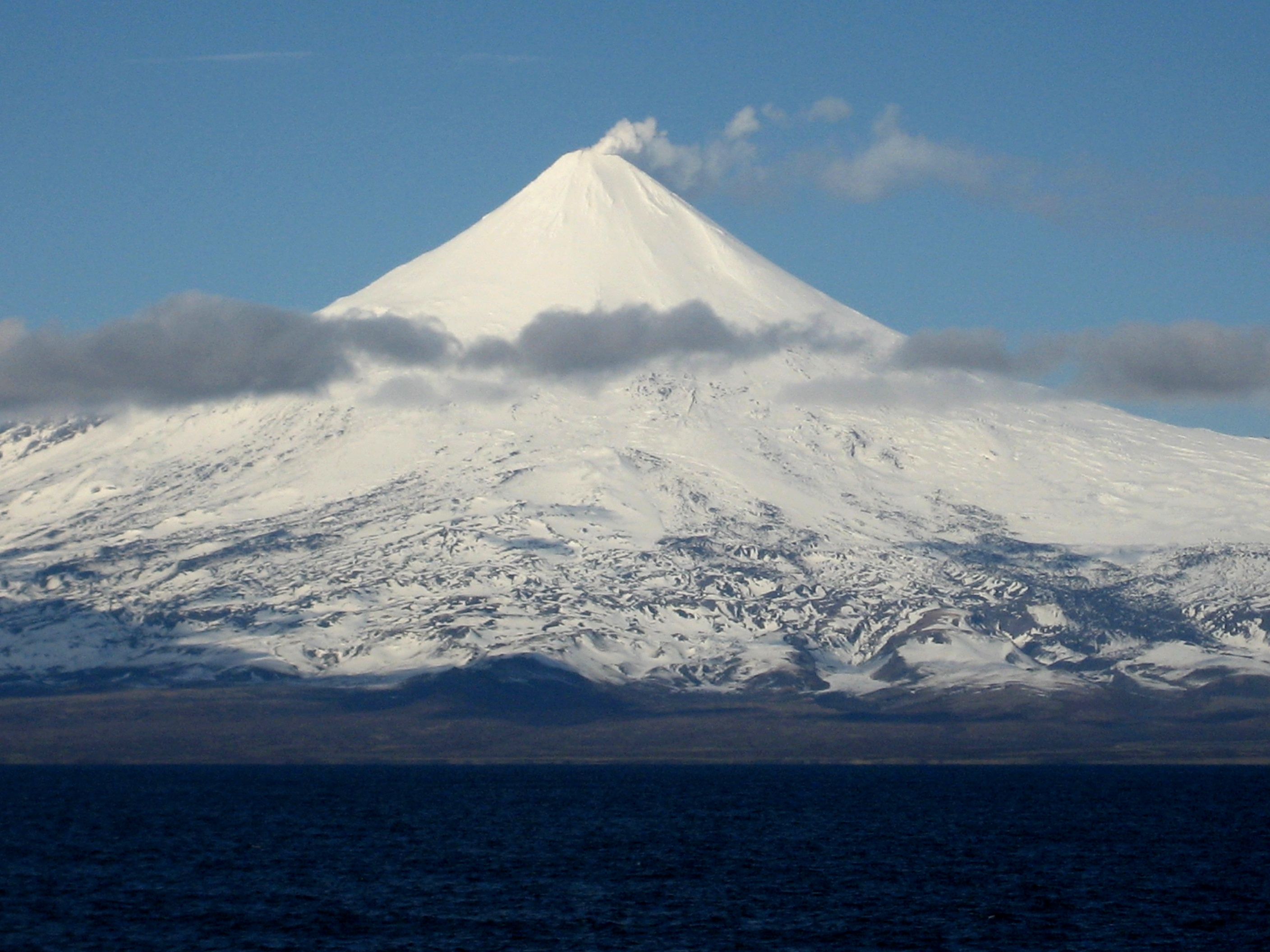 Shishaldin Volcano, one of the great navigational landmarks of Alaska. Alaska, Aleutian Islands.